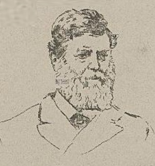 Sketch of Roland Trimen from the Zoological Congress of 1889